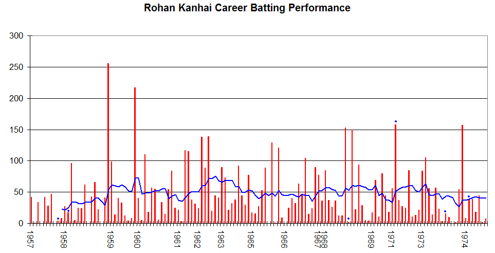 This graph details the Test Match performance of Rohan Kanhai. It was created by Raven4x4x. The red bars indicate the player's test match innings, while the blue line shows the average of the ten most recent innings at that point. Note that this average cannot be calculated for the first nine innings. The blue dots indicate innings in which Kanhai finished not-out. This graph was generated with Microsoft Excel 2002, using data from Cricinfo and .au.